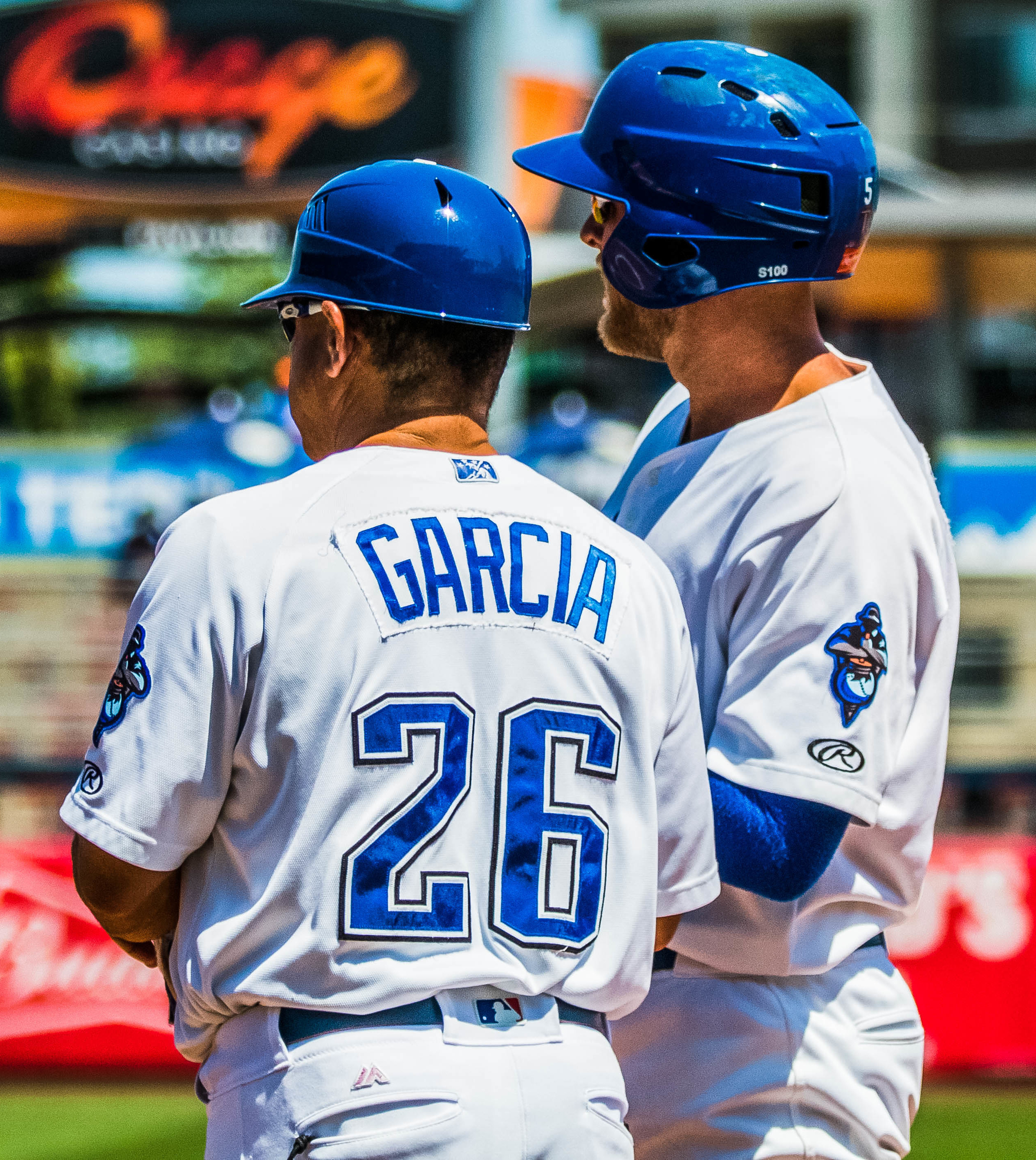 Leo Garcia (left) and Matt Beaty of the Tulsa Drillers during a 2017 game